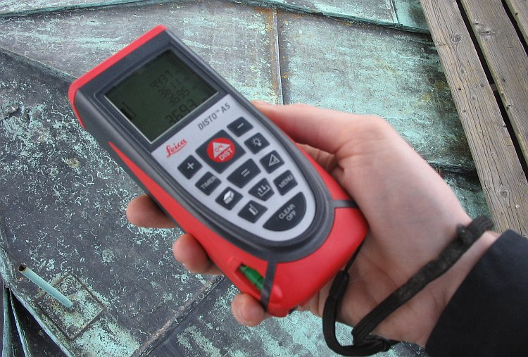 Handheld laser distance meter